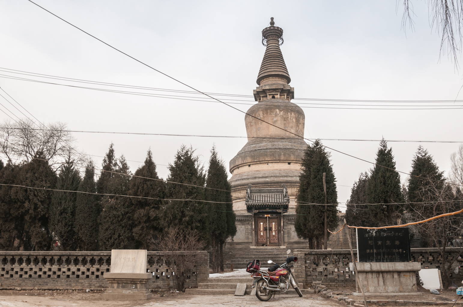 The Ayuwang or Ashoka Pagoda in Dai County, Xinzhou Prefecture, Shanxi, China. The present dagoba structure dates to the Yuan.